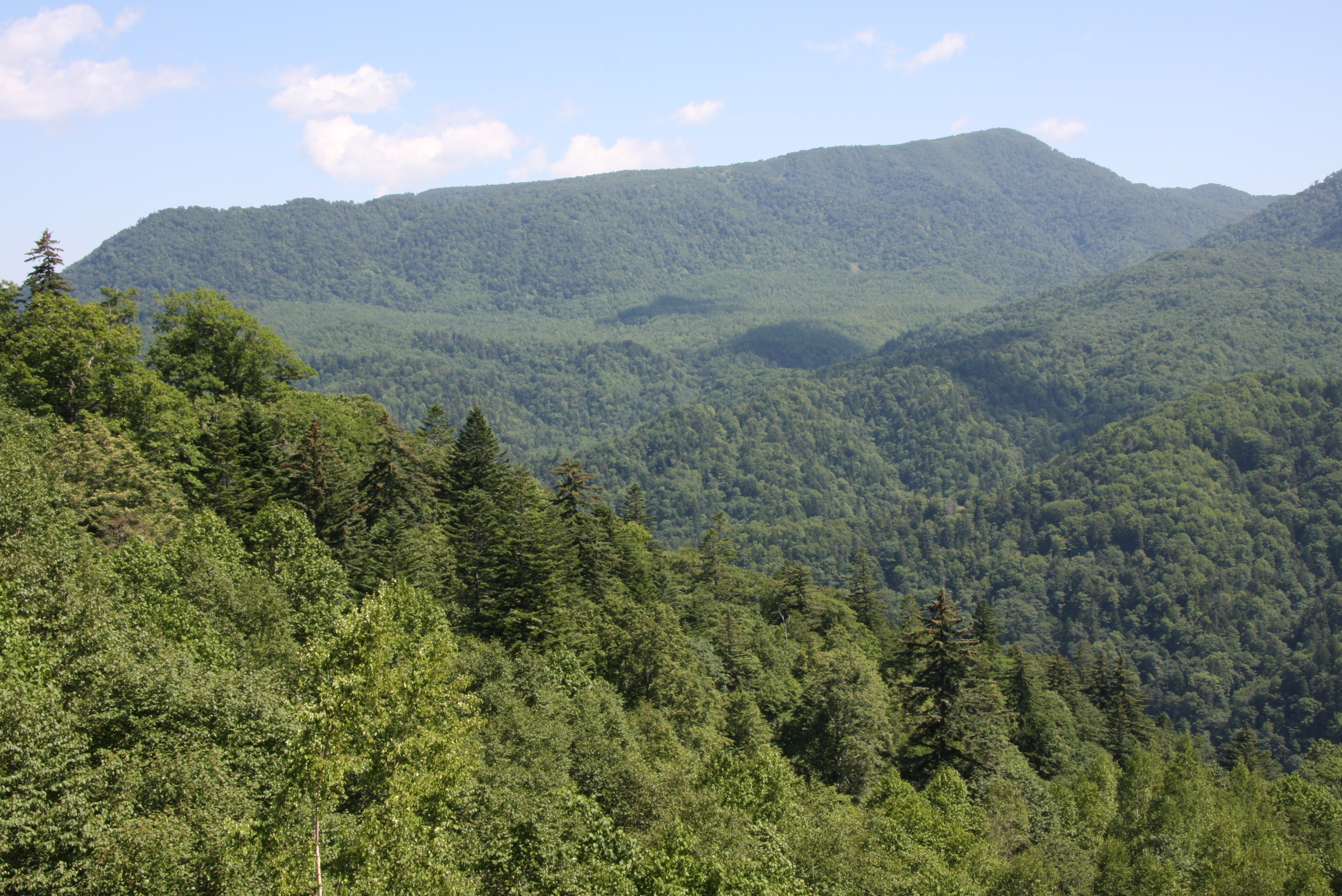 Mount Sapporo seen from the southwest.